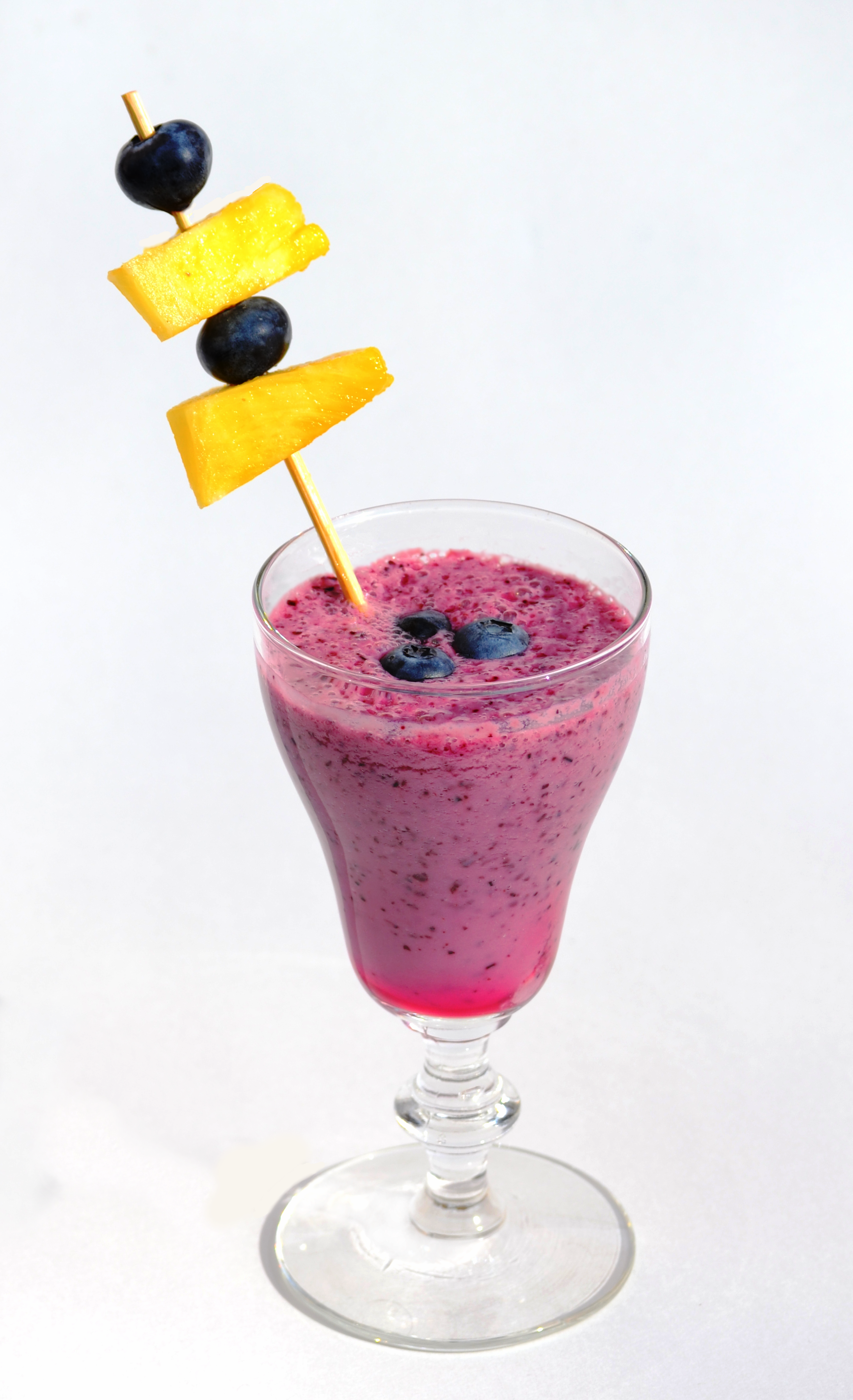 Image I took of a blueberry smoothie.